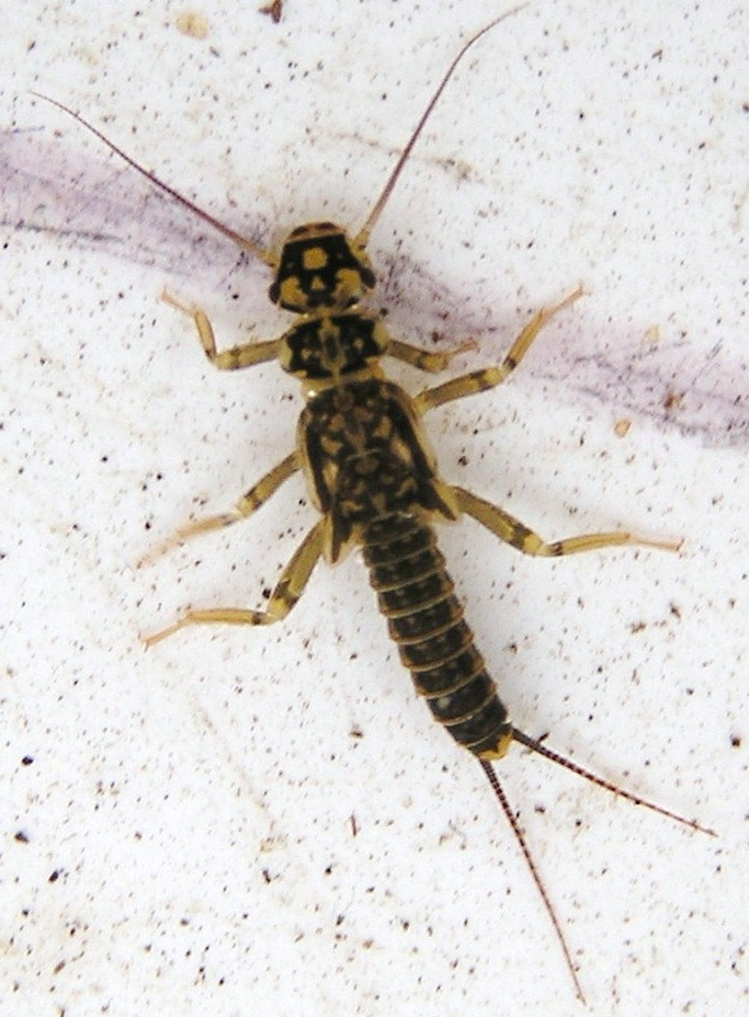 Isoperla slossonae nymph. WI, 3/2011